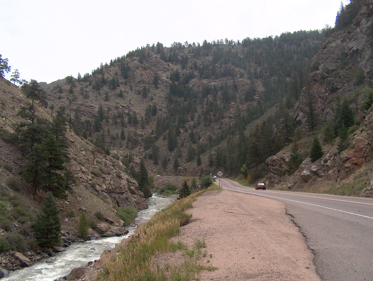 U.S. Route 6 along Clear Creek west of Silver Plume, Colorado. Photo by Ken Gallager, July 27, 2006.